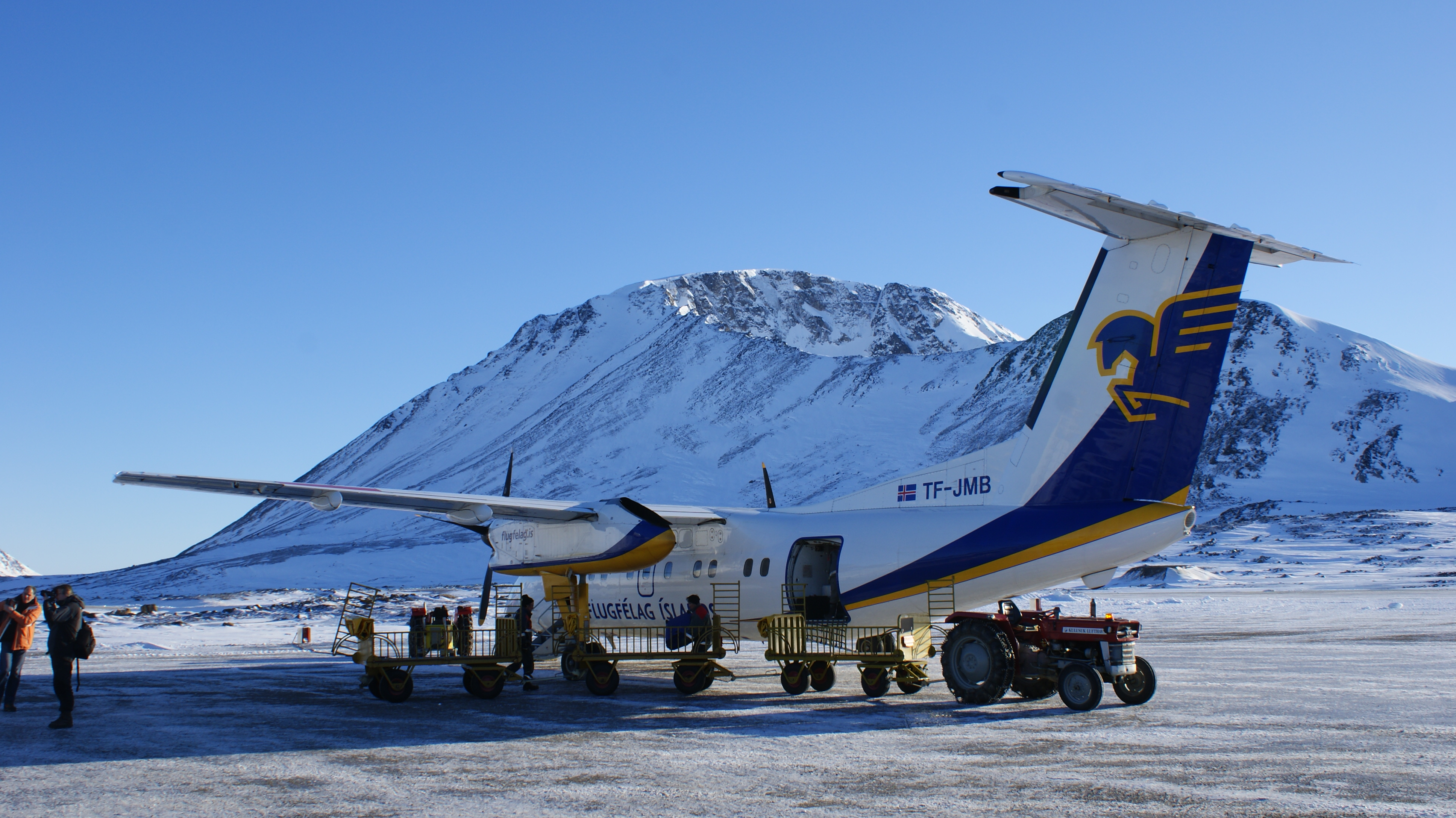 Flugfélag Íslands Dash-8 106 at Kulusuk Airport, Greenland. Qalorujoorneq mountain in the background. Crashed during landing at Nuuk airport on 2011/03/04.